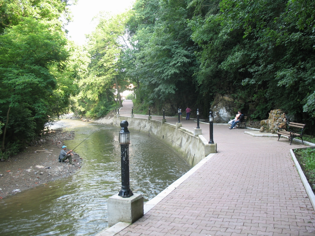 Walking path by Rasina river in Brus, Serbia.